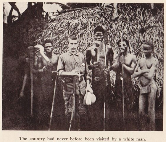 photograph